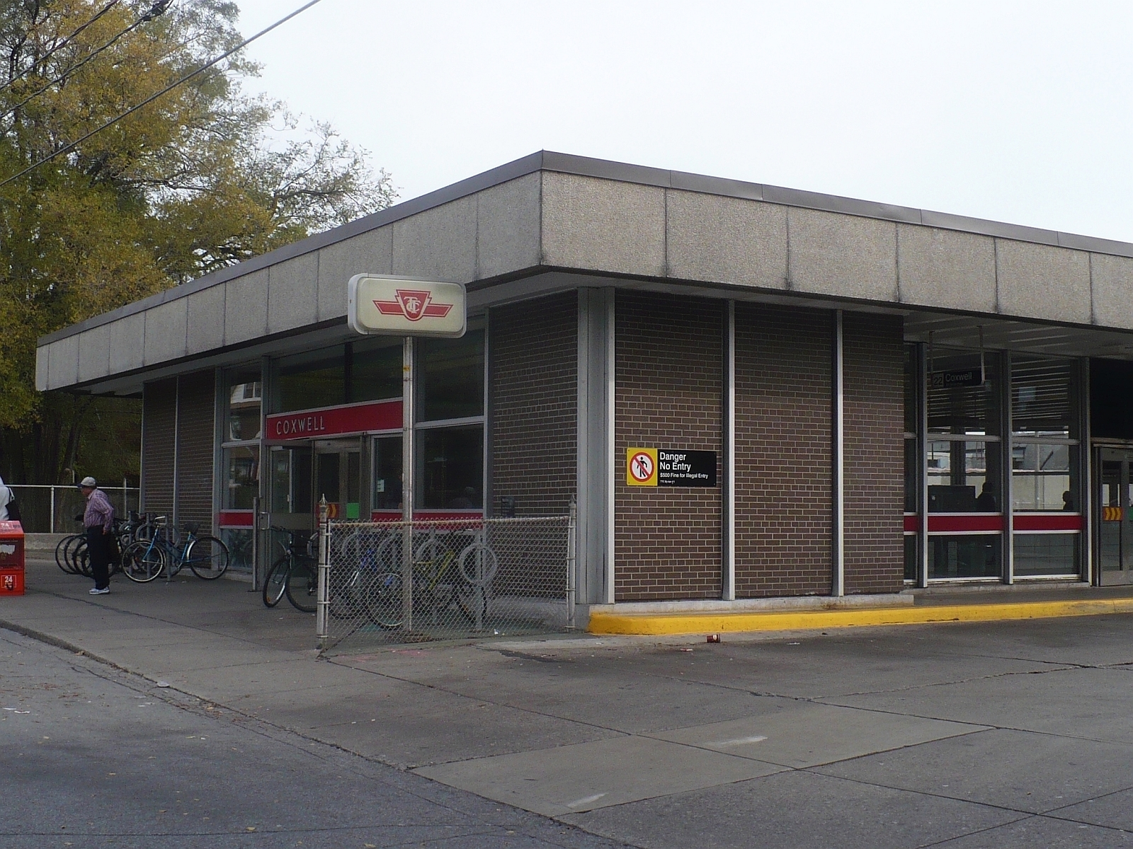 Entrance to Coxwell subway station in Toronto